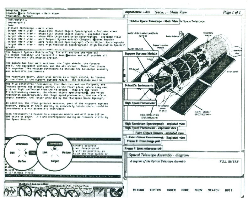 HyperTIES is an early hypermedia browser developed under the direction of Dr. Ben Shneiderman at the University of Maryland Human Computer Interaction Lab. This screen snapshot shows the HyperTIES authoring tool (built with UniPress's Gosling Emacs text editor, written in MockLisp) and browser (built with the NeWS window system, written in PostScript, C and Forth). The tabbed windows and pie menu reusable components were developed by Don Hopkins, who also developed the NeWS Emacs (NeMACS) and HyperTIES user interfaces. (Sorry about the quality -- this is a scan of an old screen dump printed by a laser printer.)